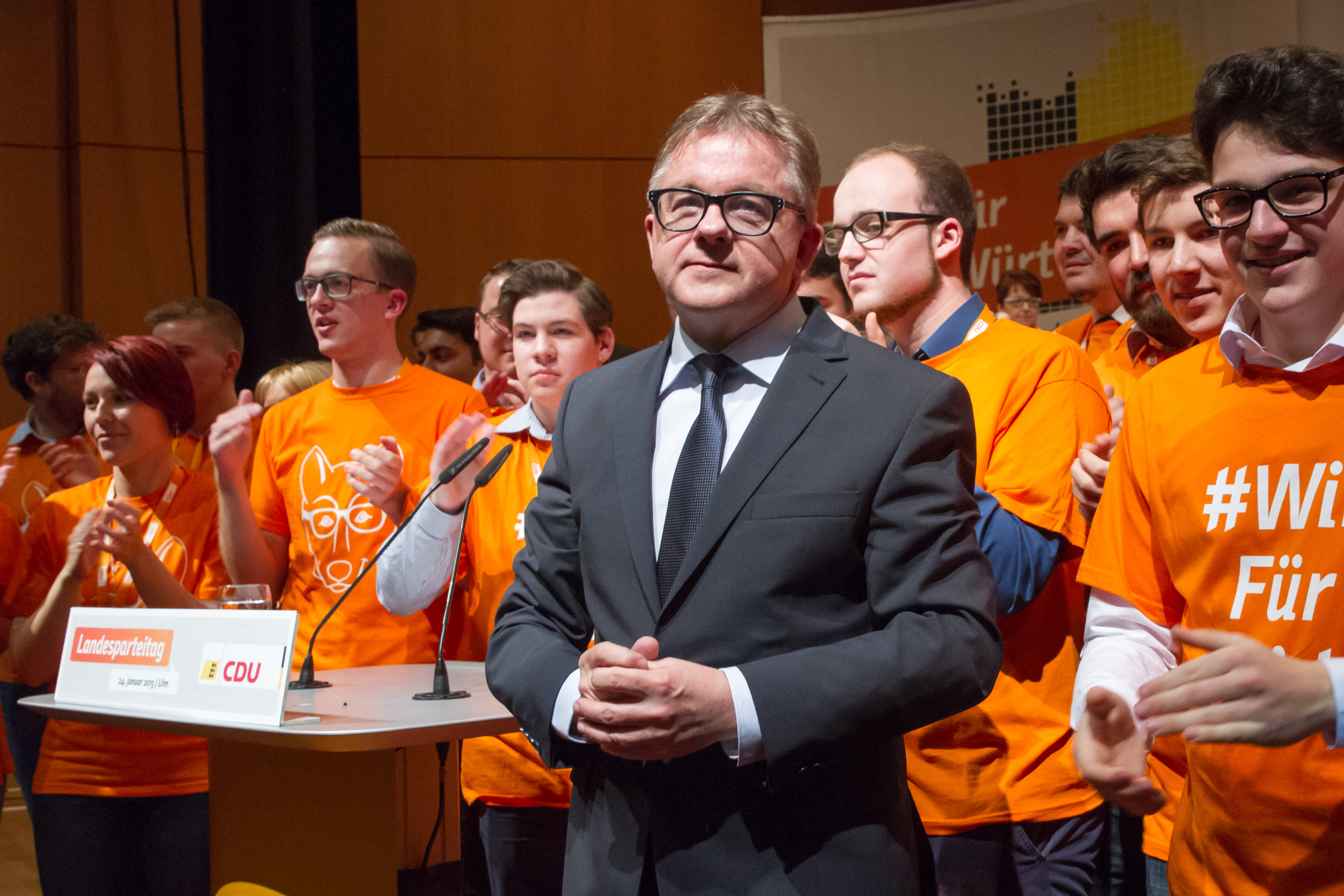 Series: 66th party convention of the CDU Baden-Württemberg in Ulm on January 24th, 2015. Image: Guido Wolf